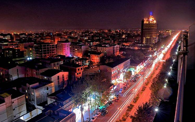 Haraz Street (photo by: iphone 6s)